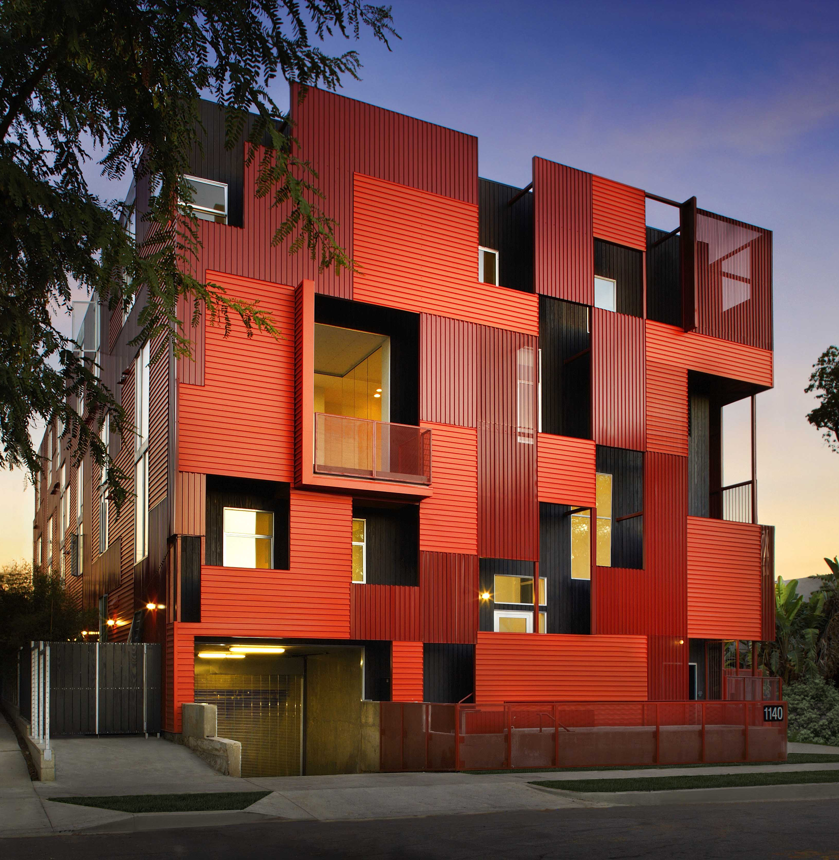 The Los Angeles region is notorious for its lack of urban public space; LOHA’s design for Formosa1140 addresses this condition by radically parceling out a third of its privately-owned building site as a publicly-managed pocket park for the City of West Hollywood. Formosa1140 simultaneously creates density and green space and models a replicable prototype for incremental community-driven city development.